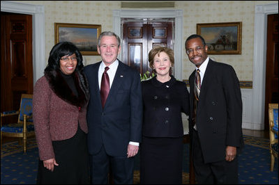 President George W. Bush and First Lady Laura Bush pose for photos with Lincoln Medal winner Dr. Benjamin Carson and his wife Candy Carson prior to a ceremony in the East Room of the White House honoring Abraham Lincoln's 199th Birthday, Sunday, Feb. 10, 2008.